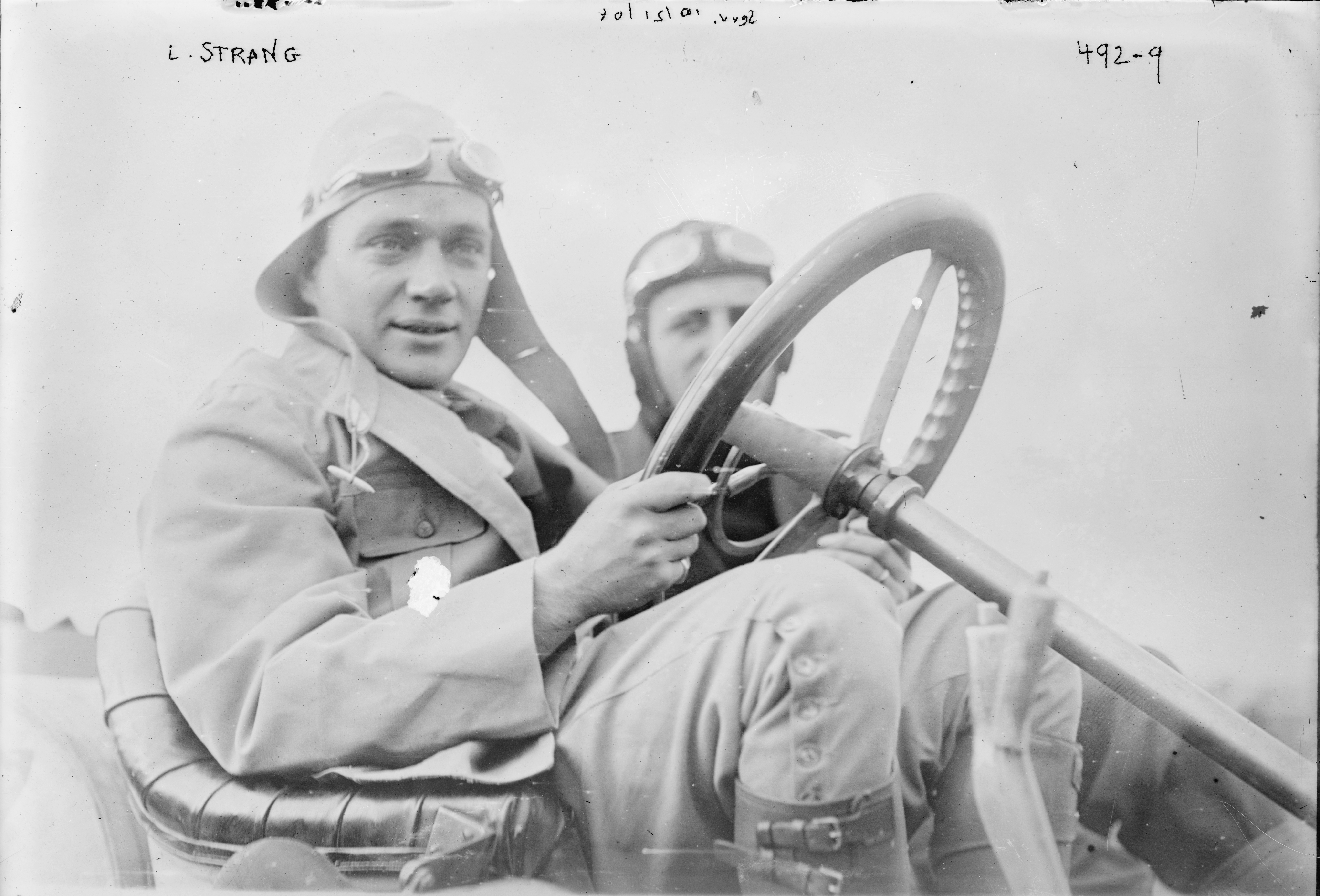 Lewis Strang at the wheel of a Renault racing car in 1908